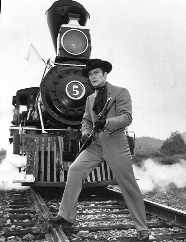 Photo o Robert Conrad as James T. West from the television program The Wild Wild West.